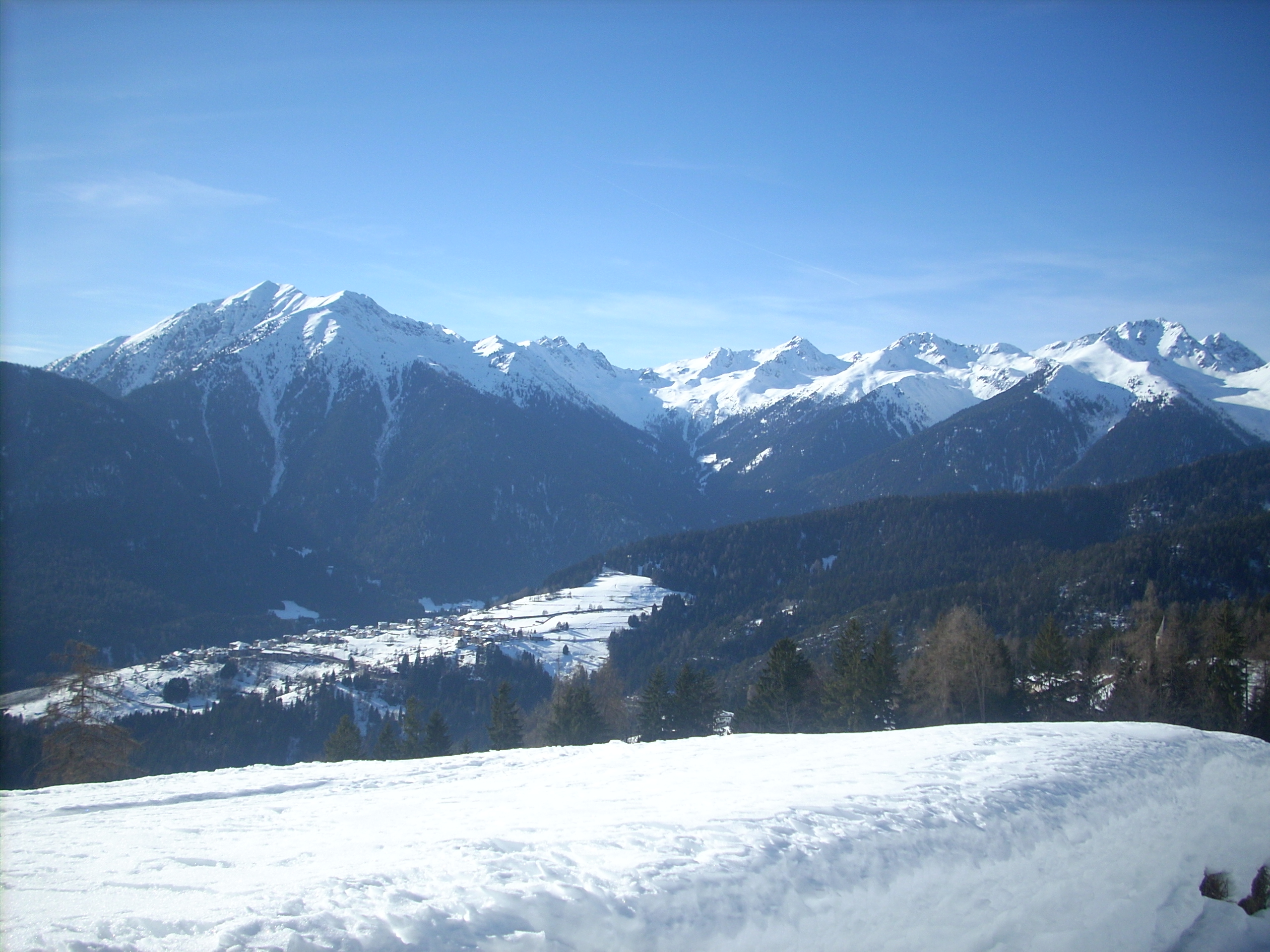 Maddalene. Wintertime.